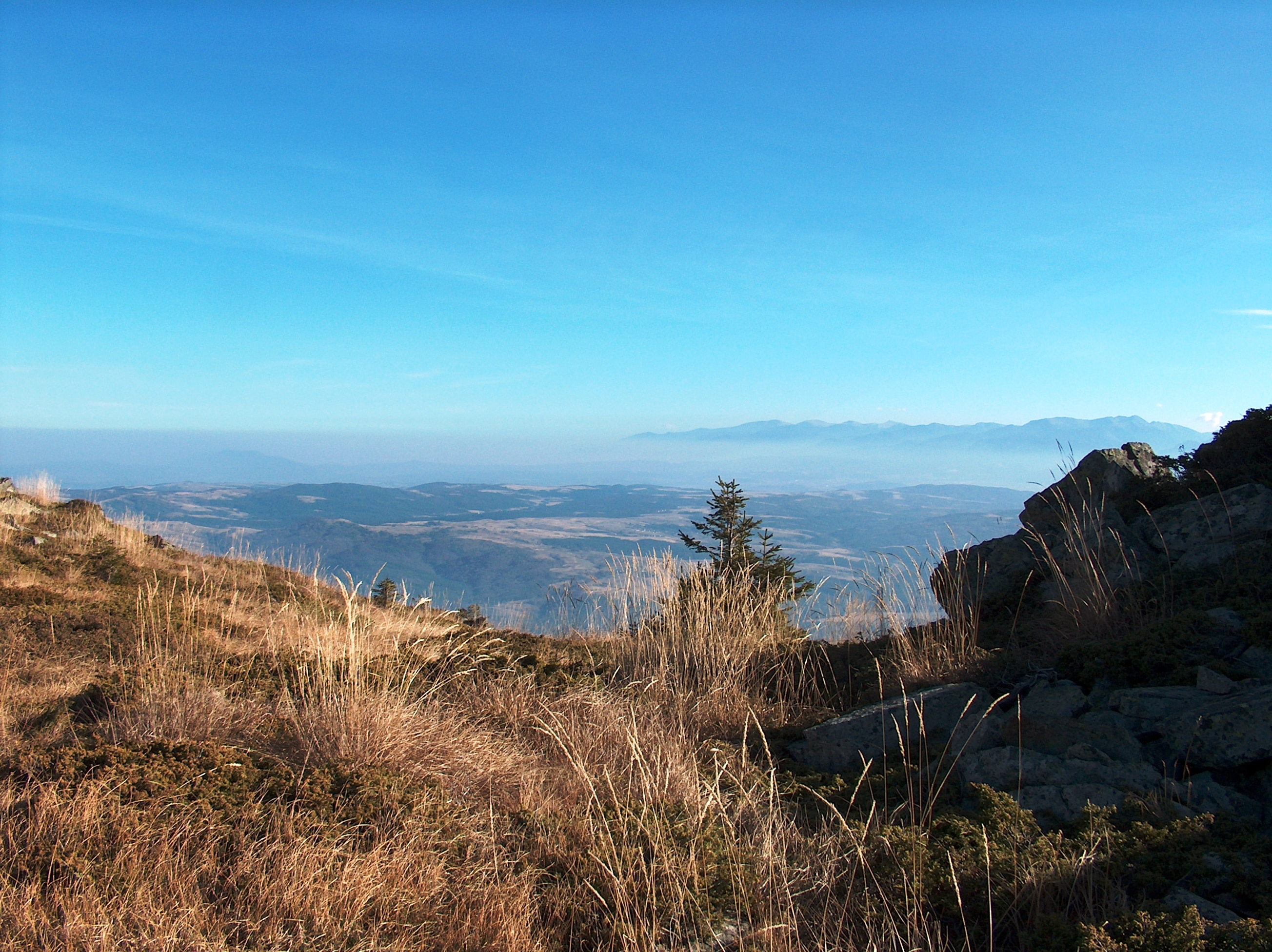 Plana Mountain from Golyam Kupen Peak, Vitosha Mountain; Rila Mountain on the horizon.